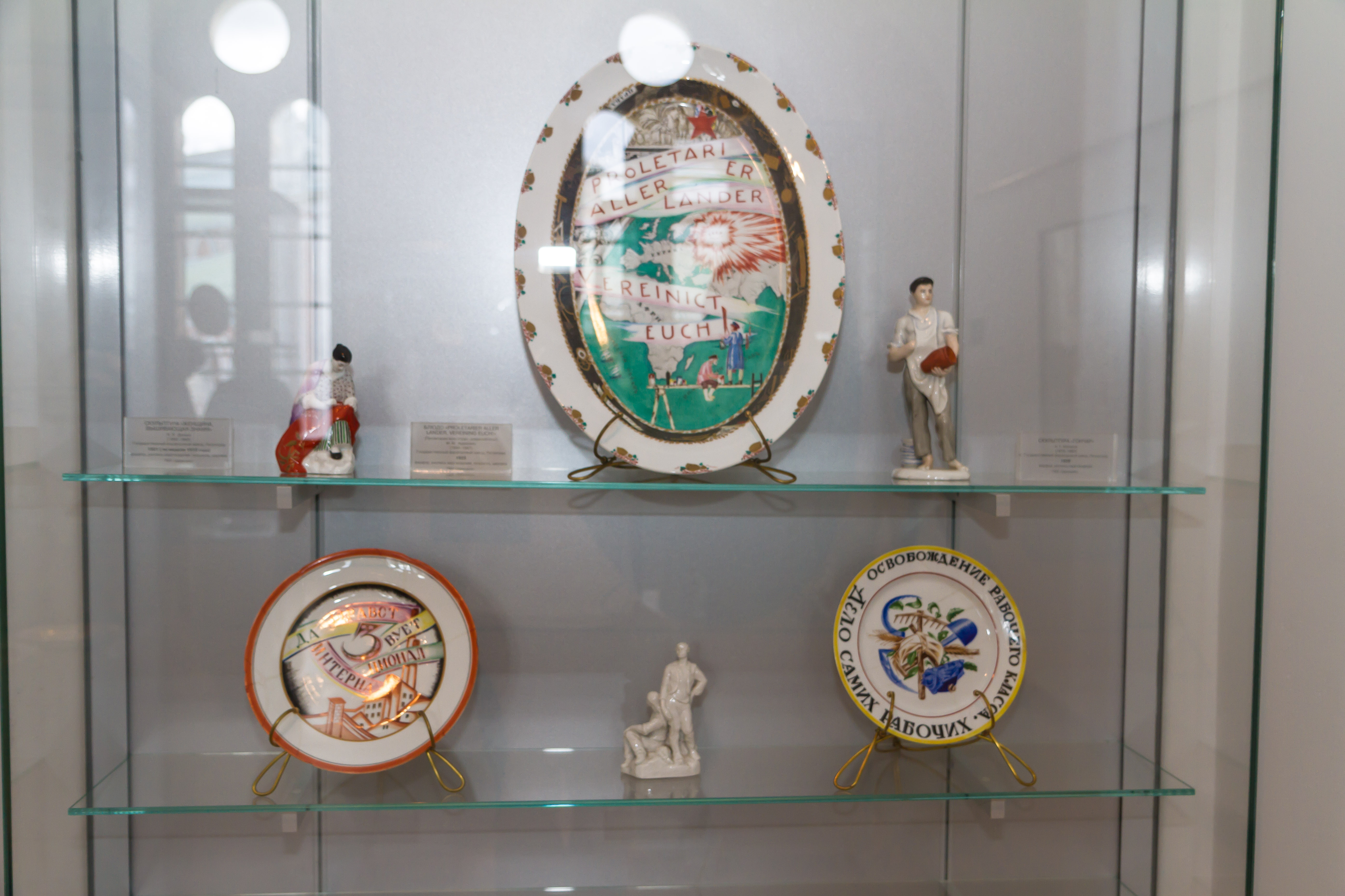 Orekhovo-Borisovo Severnoye District, Moscow, Russia